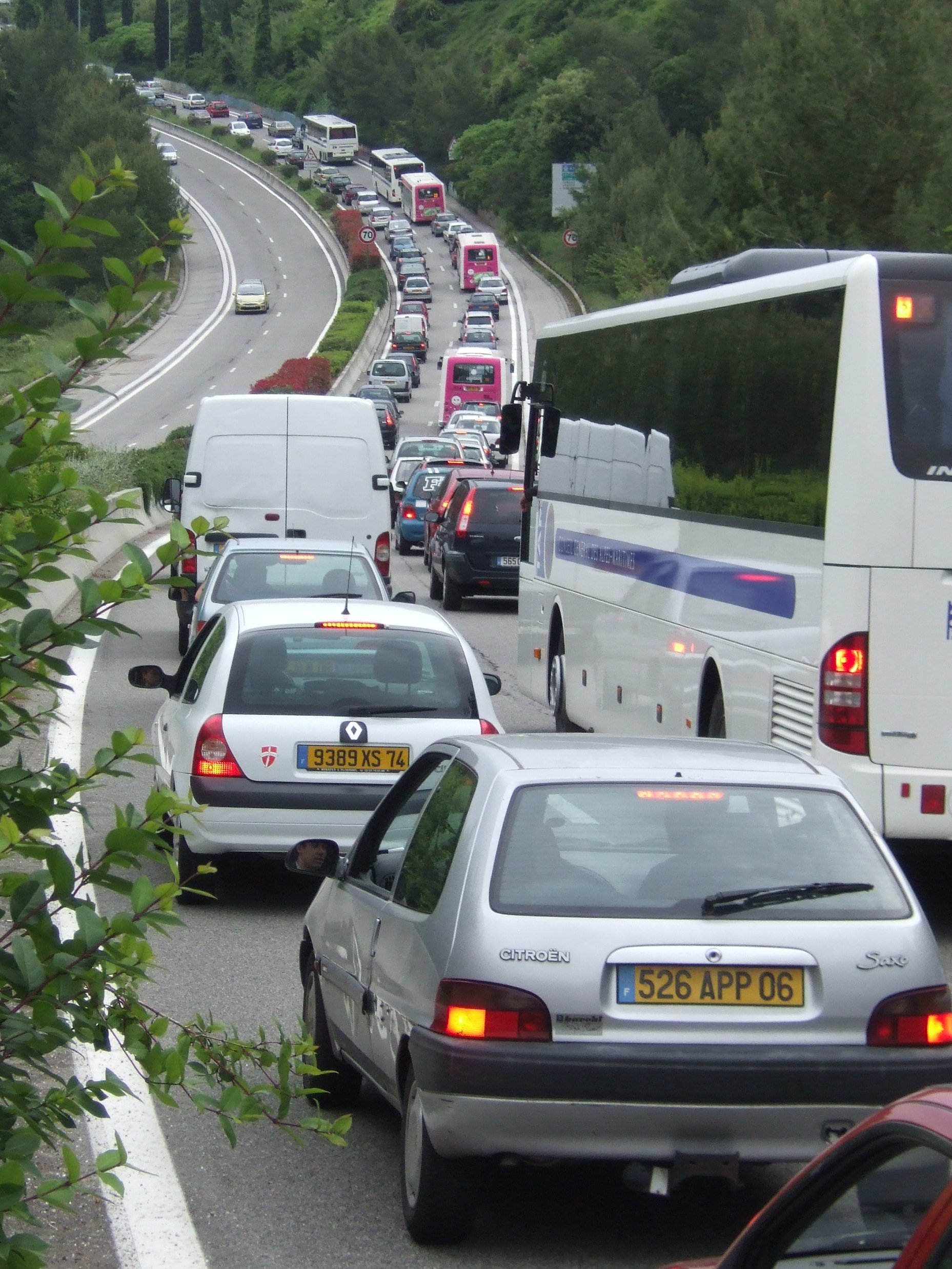 Traffic jam with bus and cars in France.